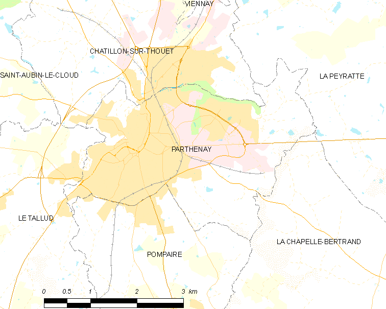 Map of French municipality Parthenay